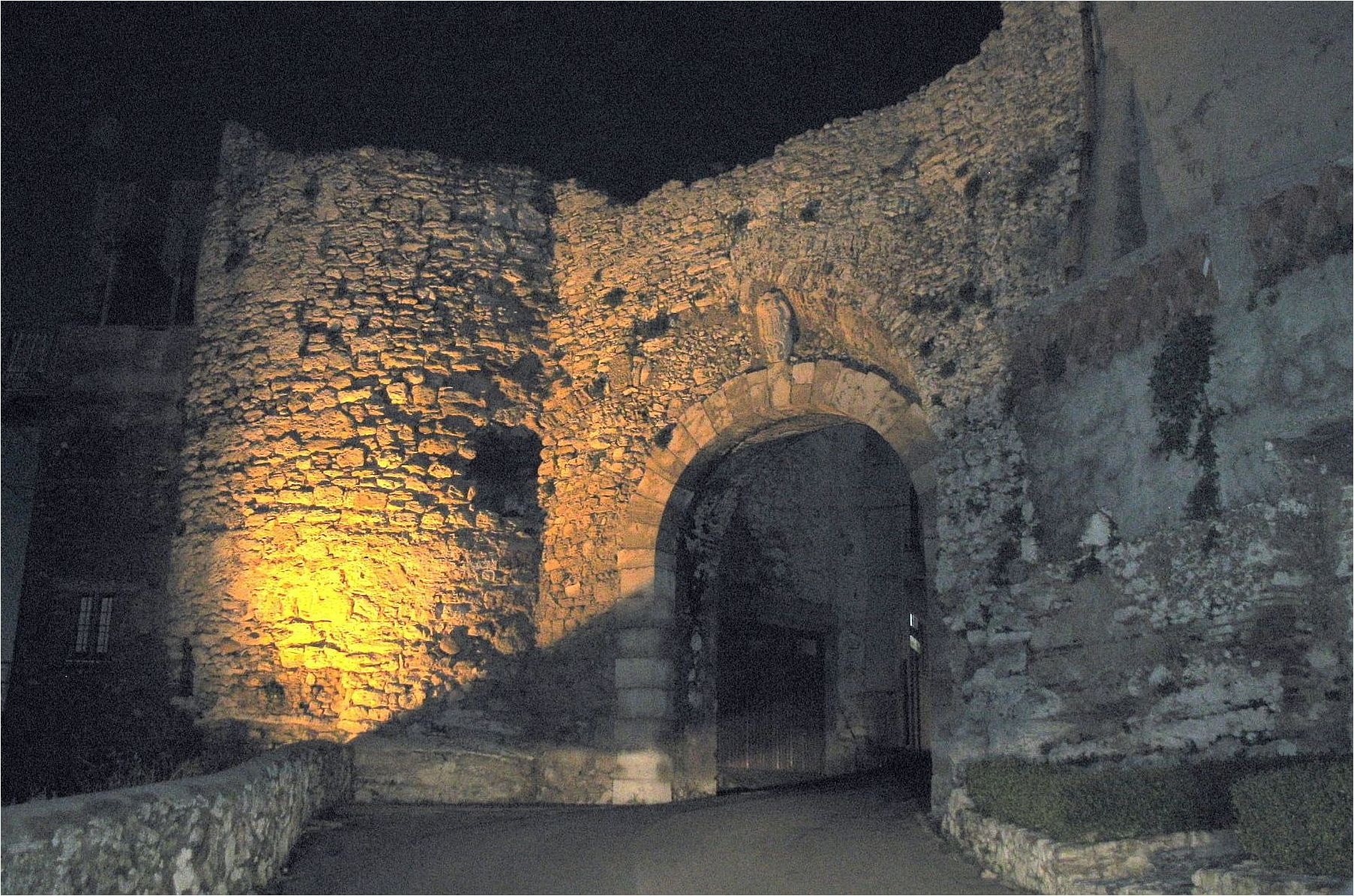 Porta Milazzo